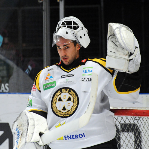 Brynäs IF's goaltender Bernhard Starkbaum during the SHL AIK-Brynäs IF (2-5) at Johanneshovs isstadion in Stockholm, Sweden on 24 November 2013.